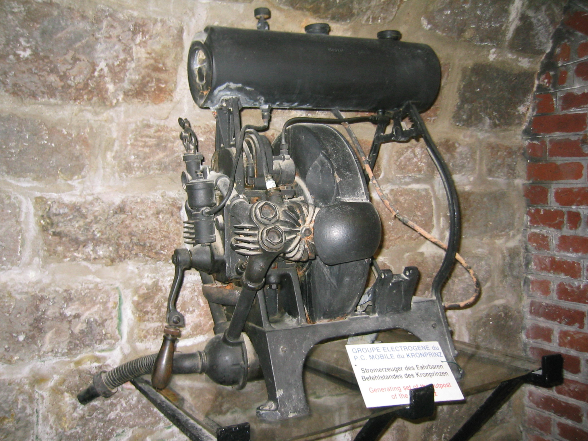 German generating set of WWI (in Fort de Vaux, Verdun)